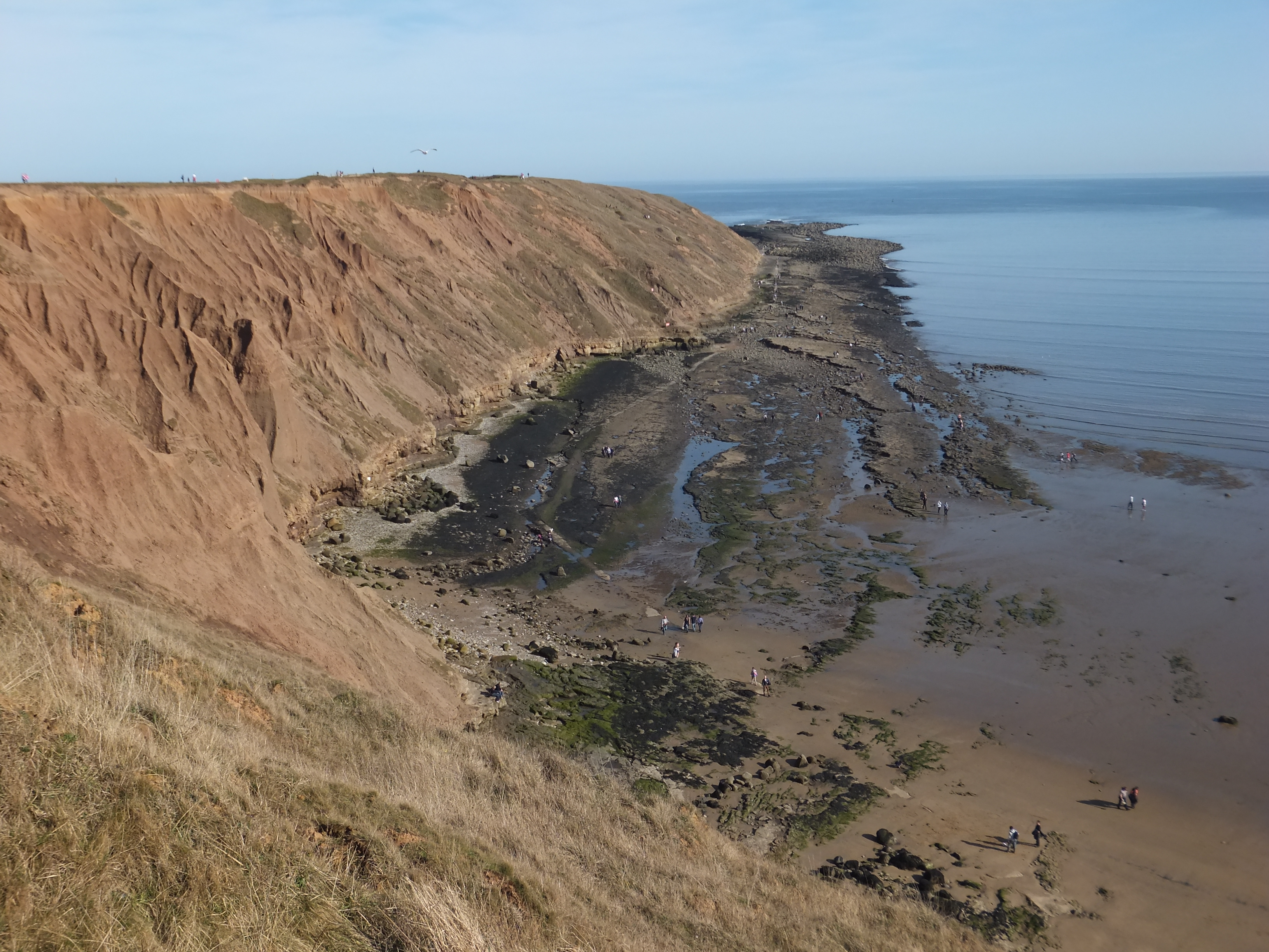 Taken on 11th March 2012 on Filey Brigg, North Yorkshire.